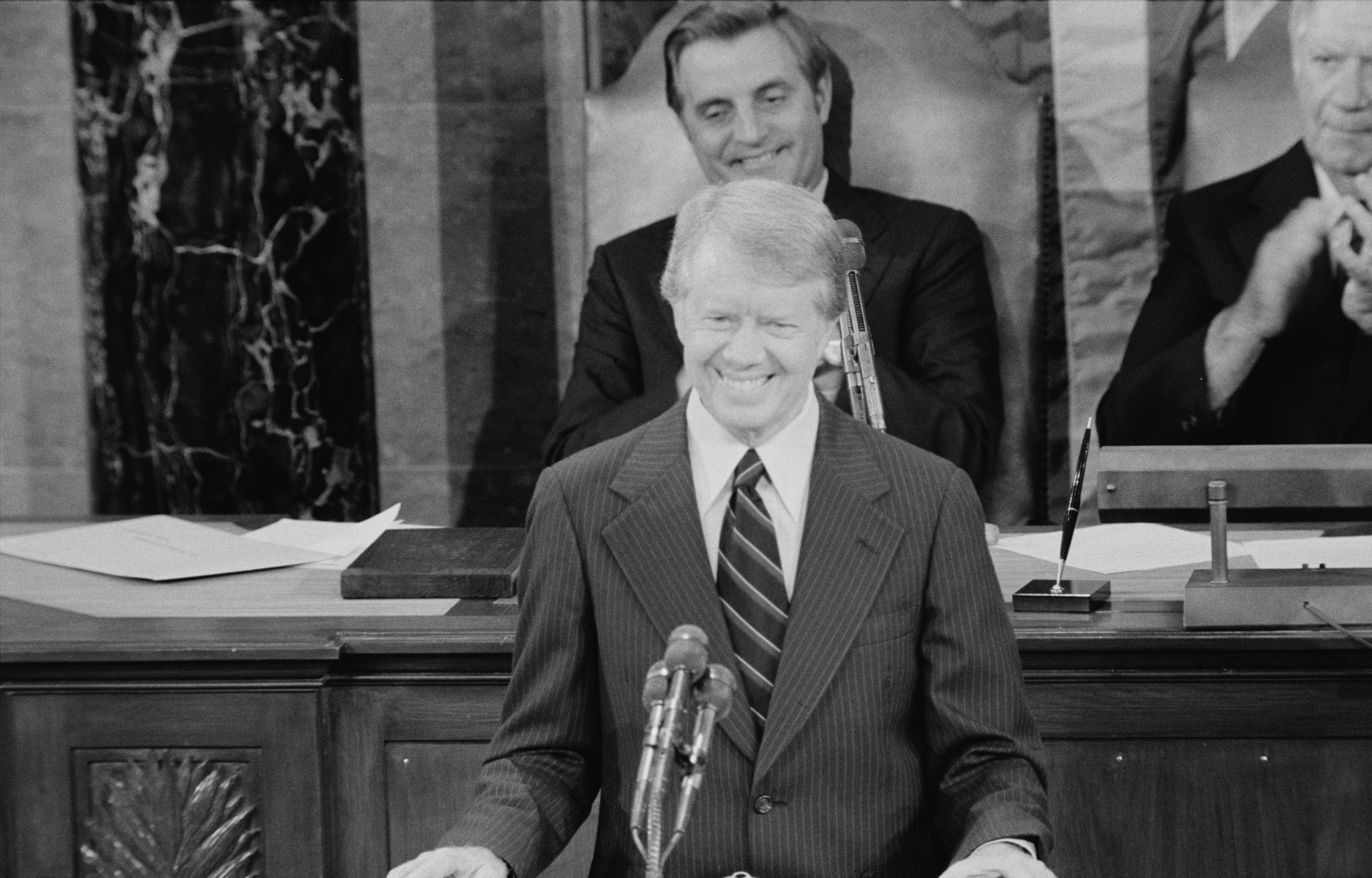 President Jimmy Carter addresses a Joint Session of Congress, announcing the results of the Camp David Accords, with Vice President Walter Mondale and Speaker of the House Tip O'Neill seated behind him